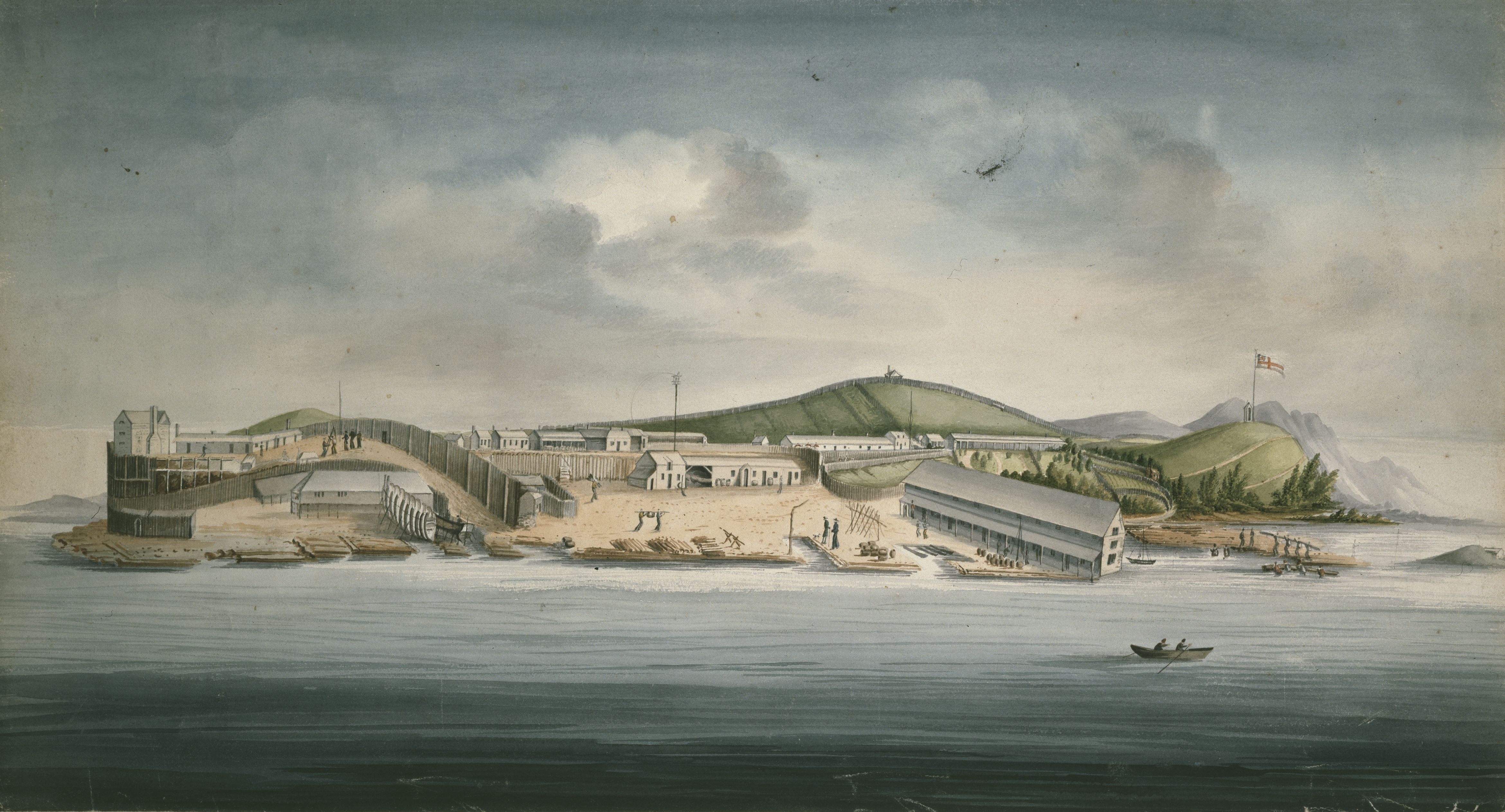 A north east view of Macquarie Harbour, 1833, W.B. Gould, watercolour, State Library of New South Wales, V6B / Mac H / 2